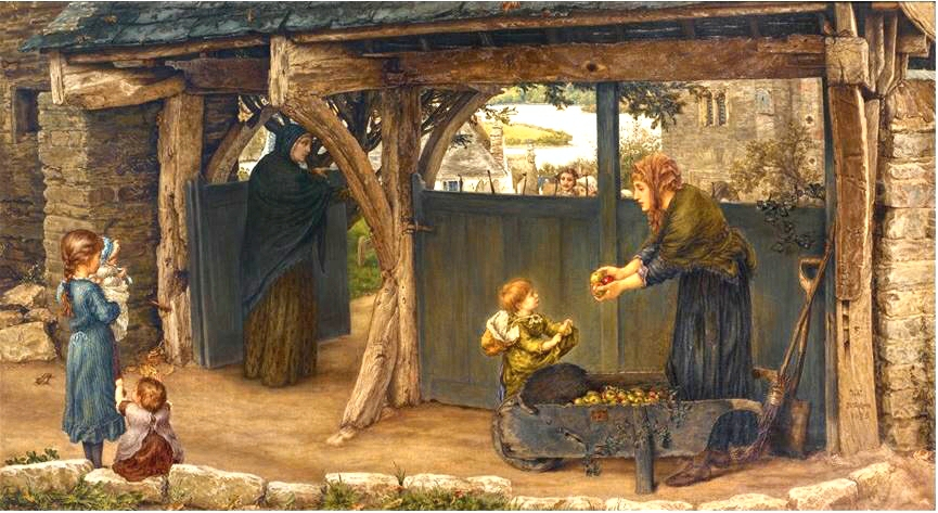 The Lychgate